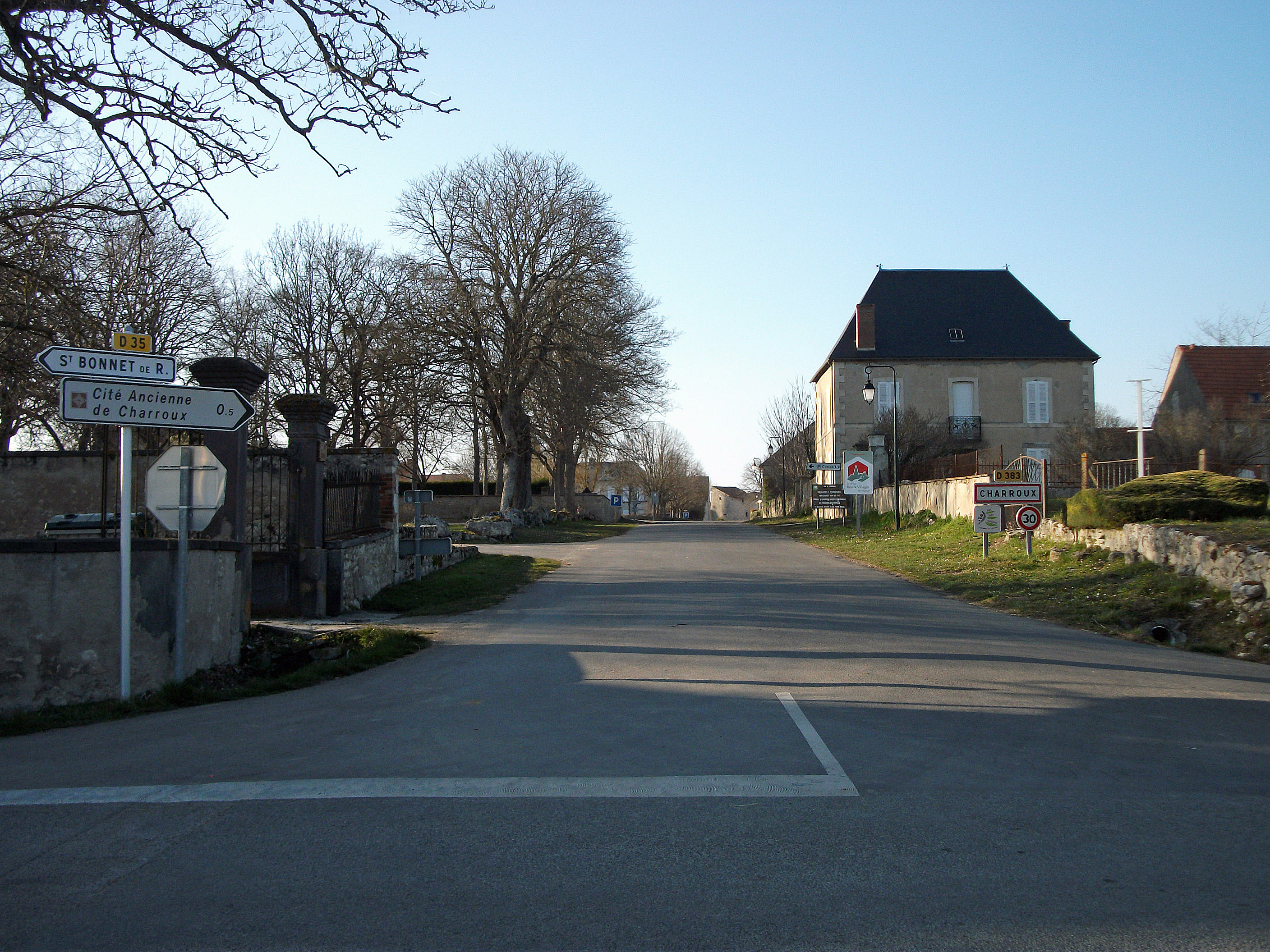 Main entrance of Charroux, Allier, by departmental road 383. [10499]